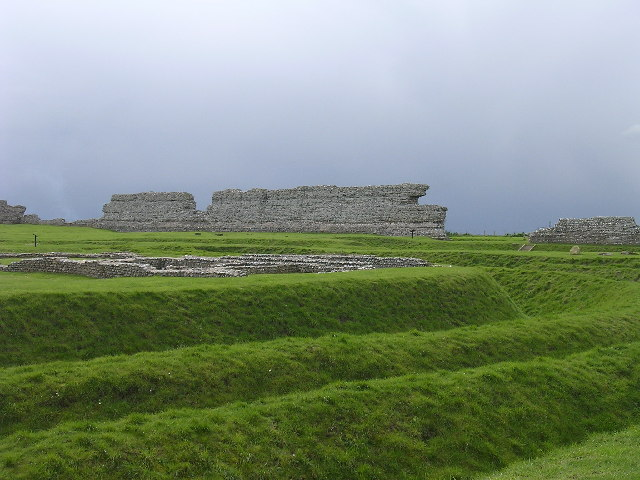 Richborough castle The ruins of Richborough castle are all that remain of a Roman fort built in AD275. Some of the walls and defensive ditches give a clue to the size of the imposing fort which was once the launch pad for the Romans' invasion of Britain.